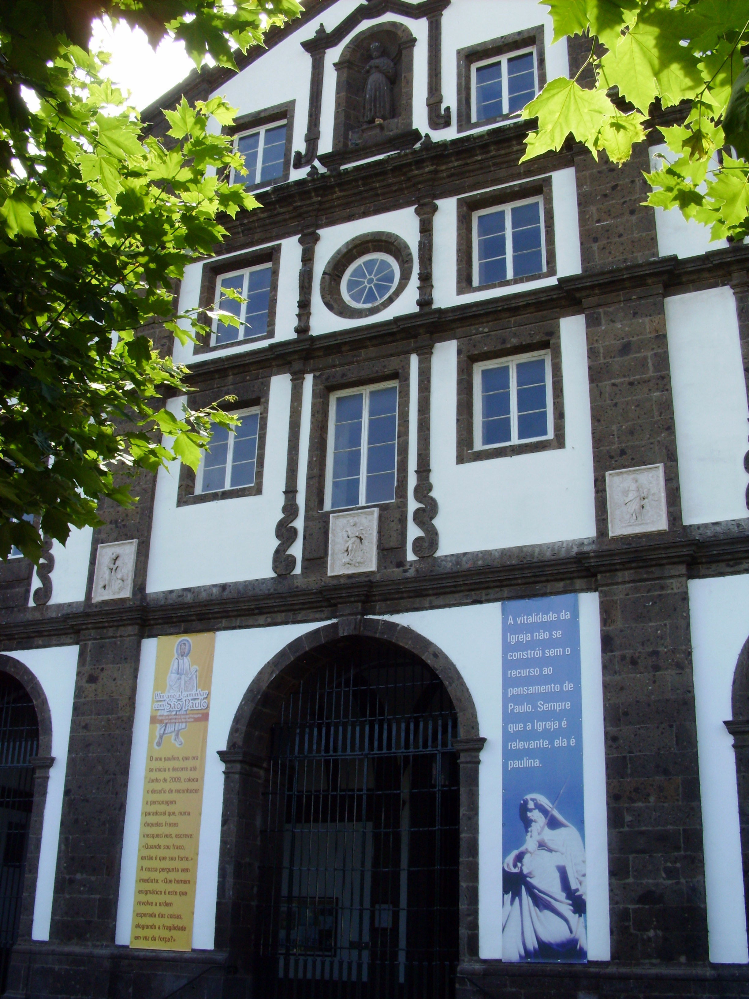 Close-up of the Church of São José, São José, Ponta Delgada, São Miguel (Azores), Portugal